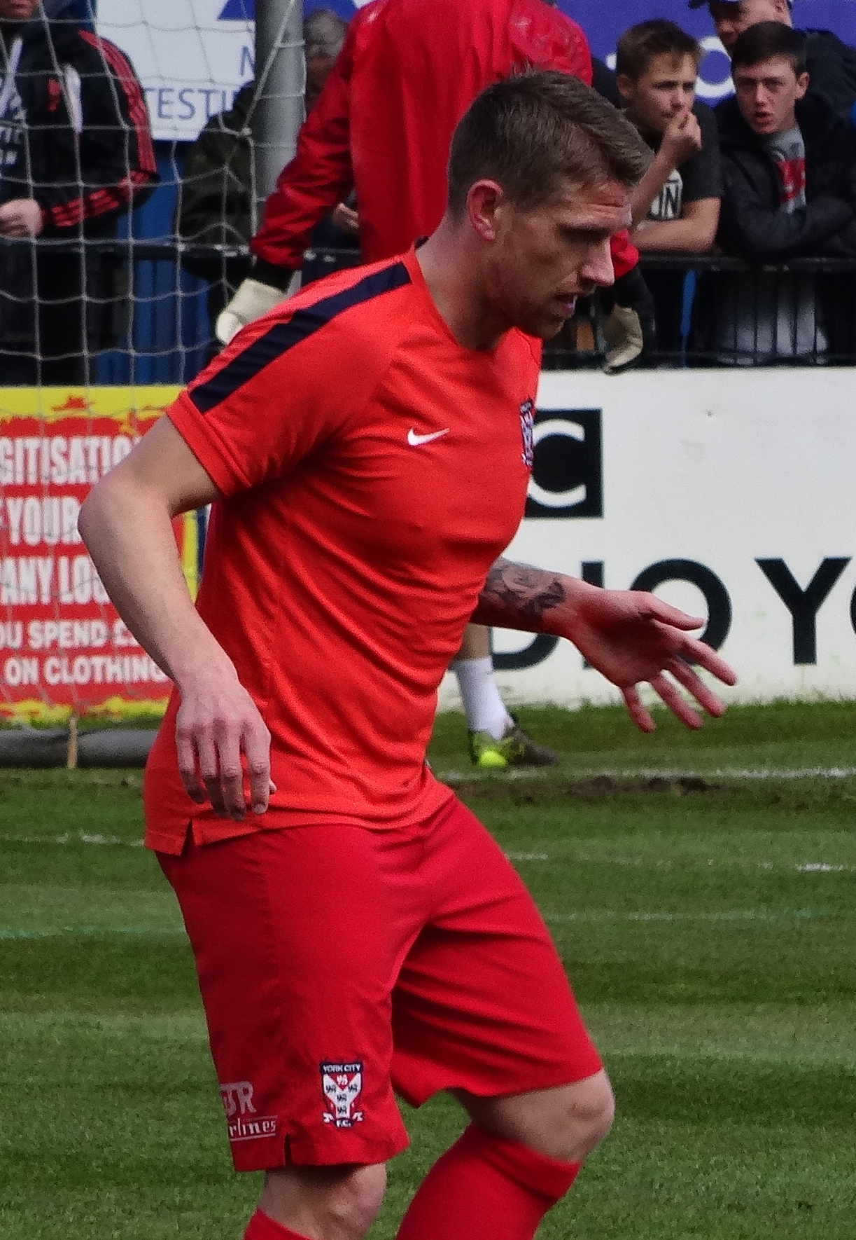 Scot Bennett training with York City before their match against Bristol Rovers at Bootham Crescent, York on 30 April 2016